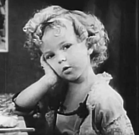 Shirley temple from the Public Domain movie Glad Rags to Riches (1933